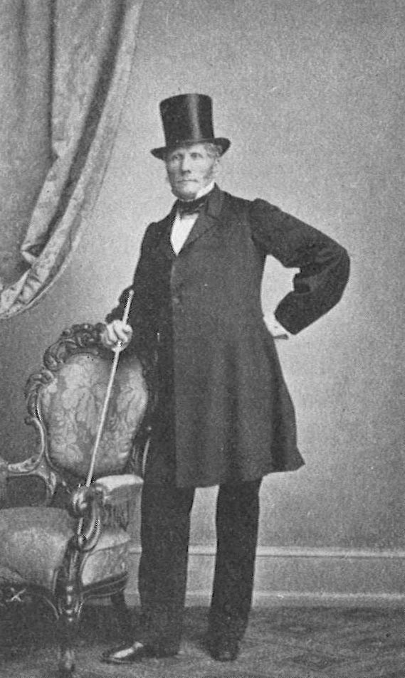 Johan Jakob Nordström (1801-1874), Finnish-Swedish academic, jurist, politician and head of the National Archives of Sweden.